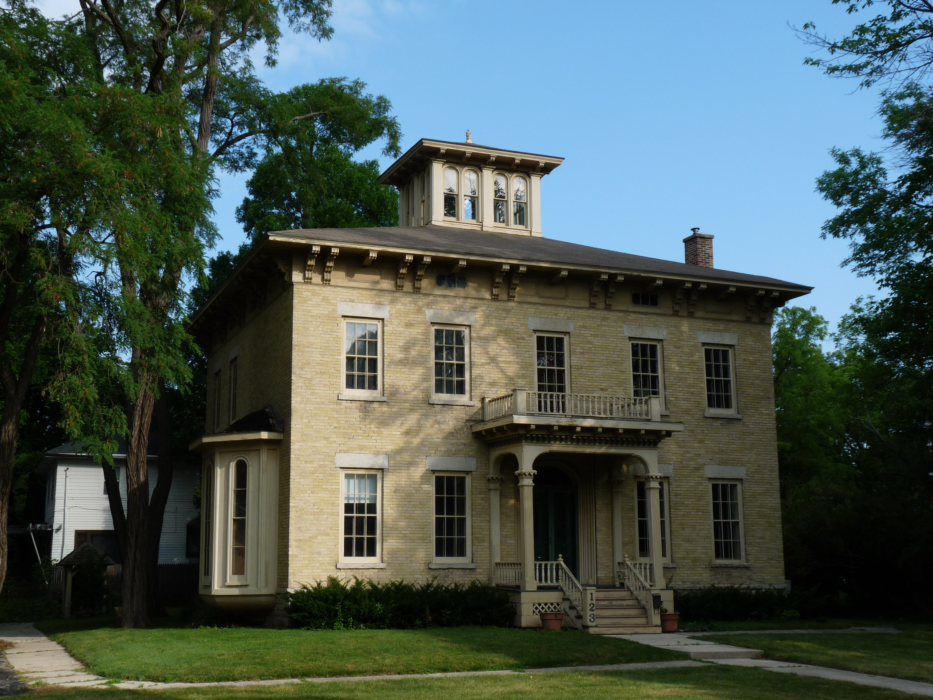 The Joel S. Fisk House in Green Bay, Wisconsin is an Italianate house with cupola built from 1862 to 1867 for Fisk, a prominent businessman. The house was listed on the National Register of Historic Places in 1978.